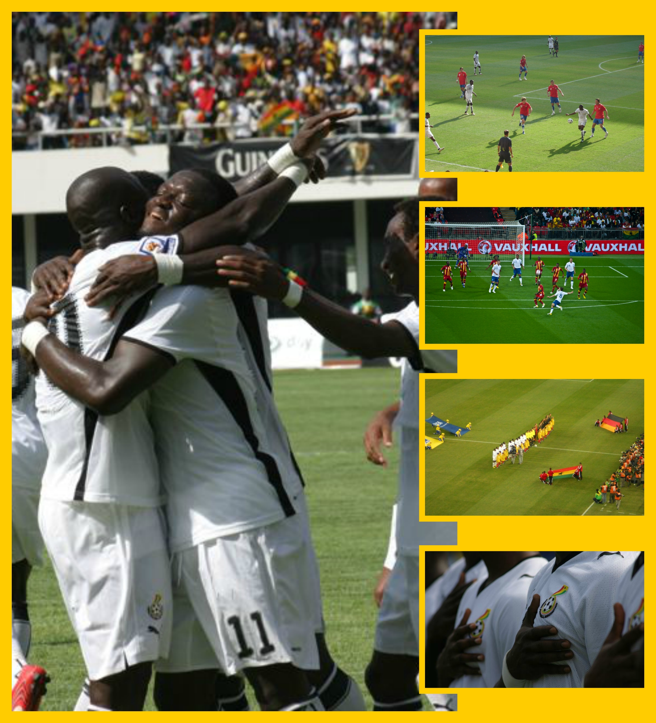 Black Stars (Ghana national football team) 21st Century Continuum.